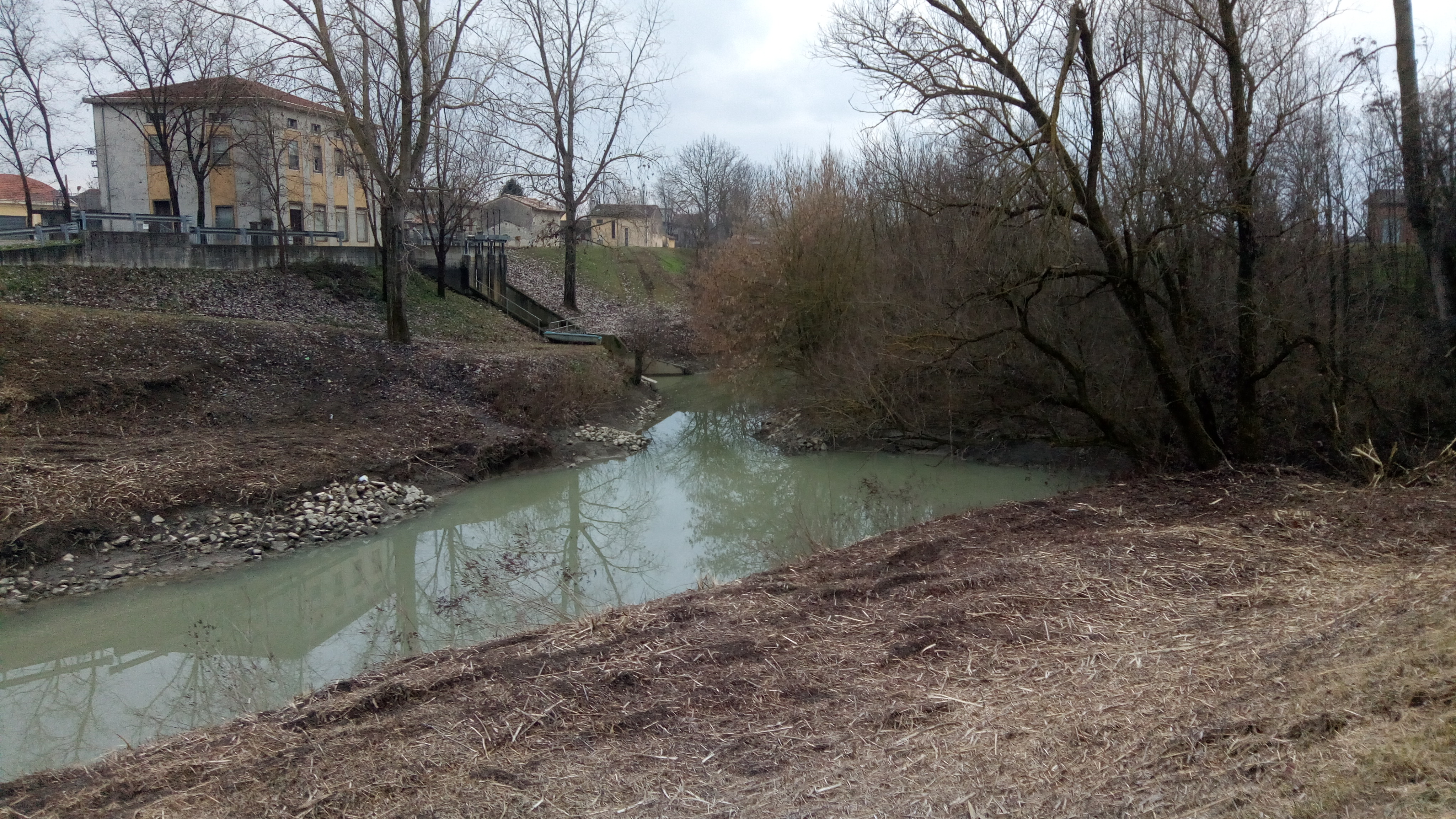 Arda joins Ongina river